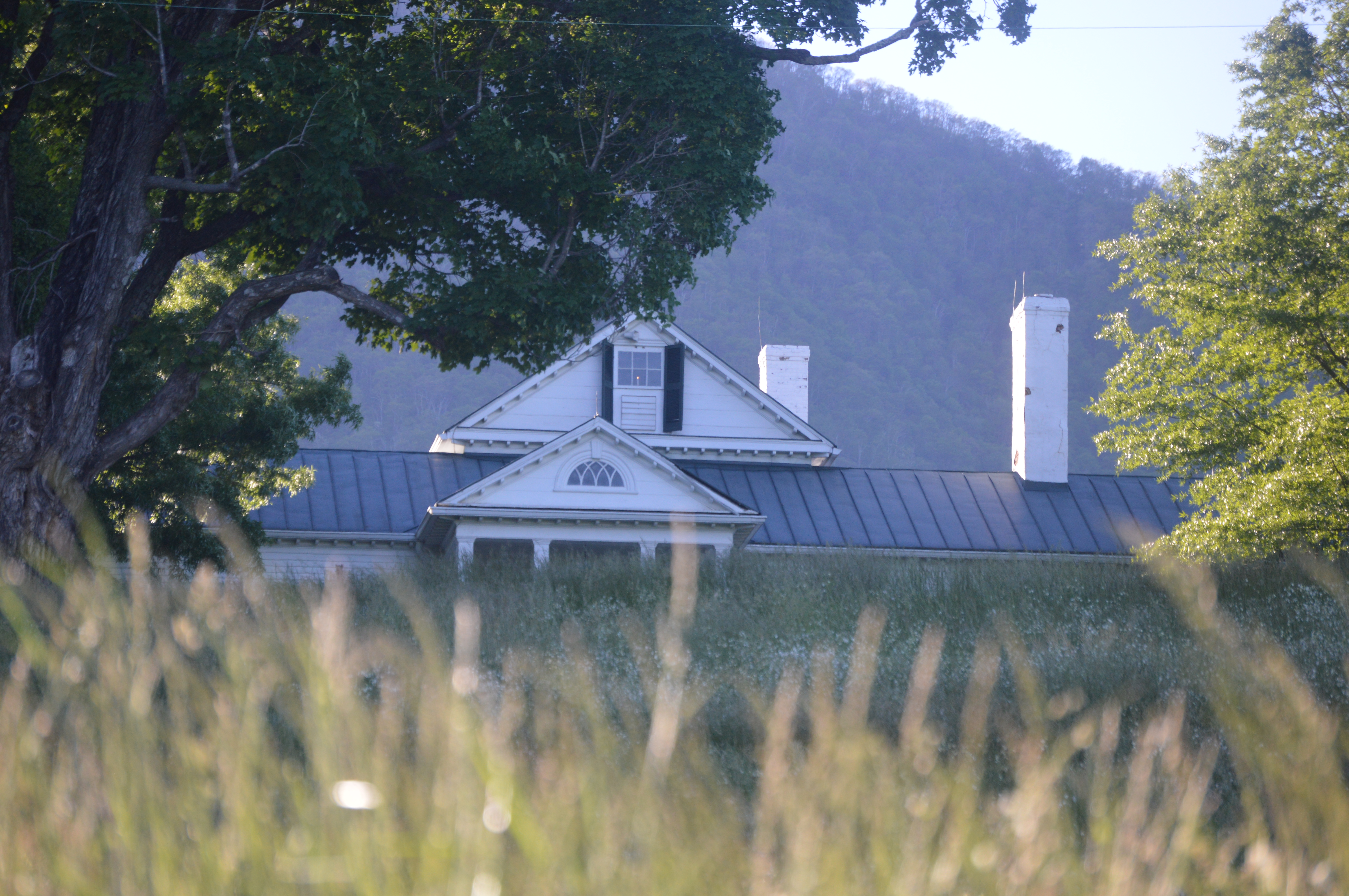 Front of Pharsalia, located on Pharsalia Road southwest of Tyro in Nelson County, Virginia, United States. Built in 1816, it is listed on the National Register of Historic Places.